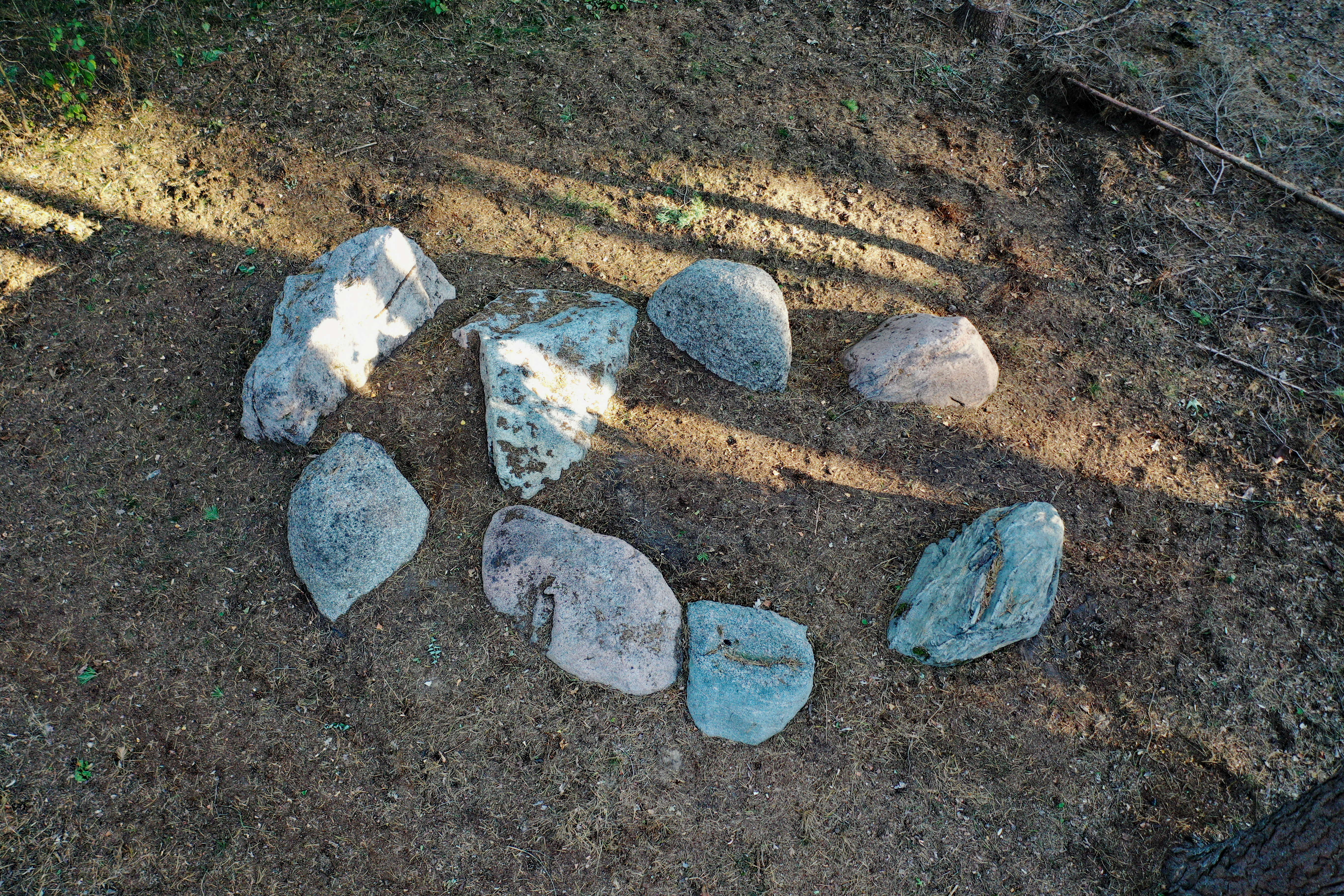 Megalithic in Altmark (Saxony-Anhalt, Germany) Lüdelsen 4